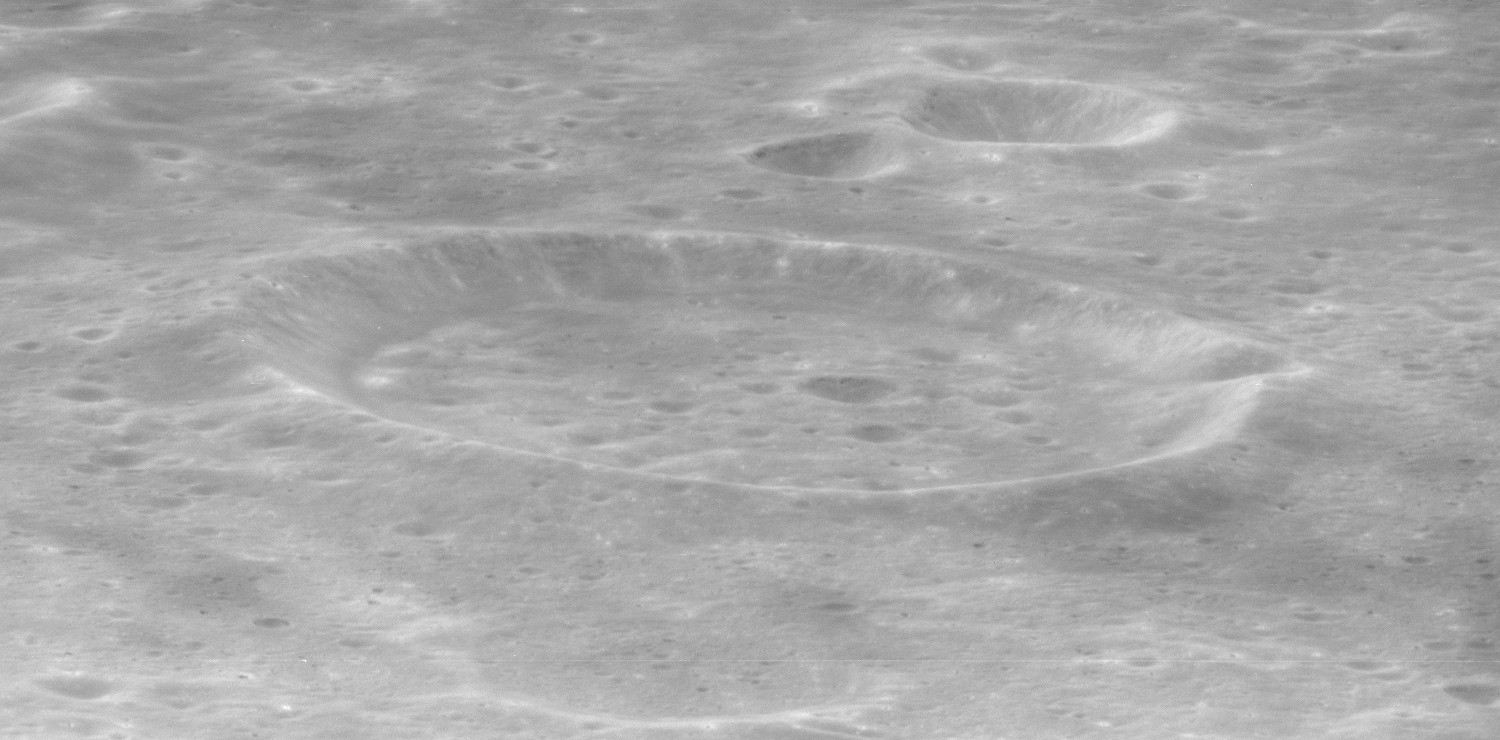 Oblique view of Slocum crater, facing west, on the moon. Taken by Apollo 17 panoramic camera.